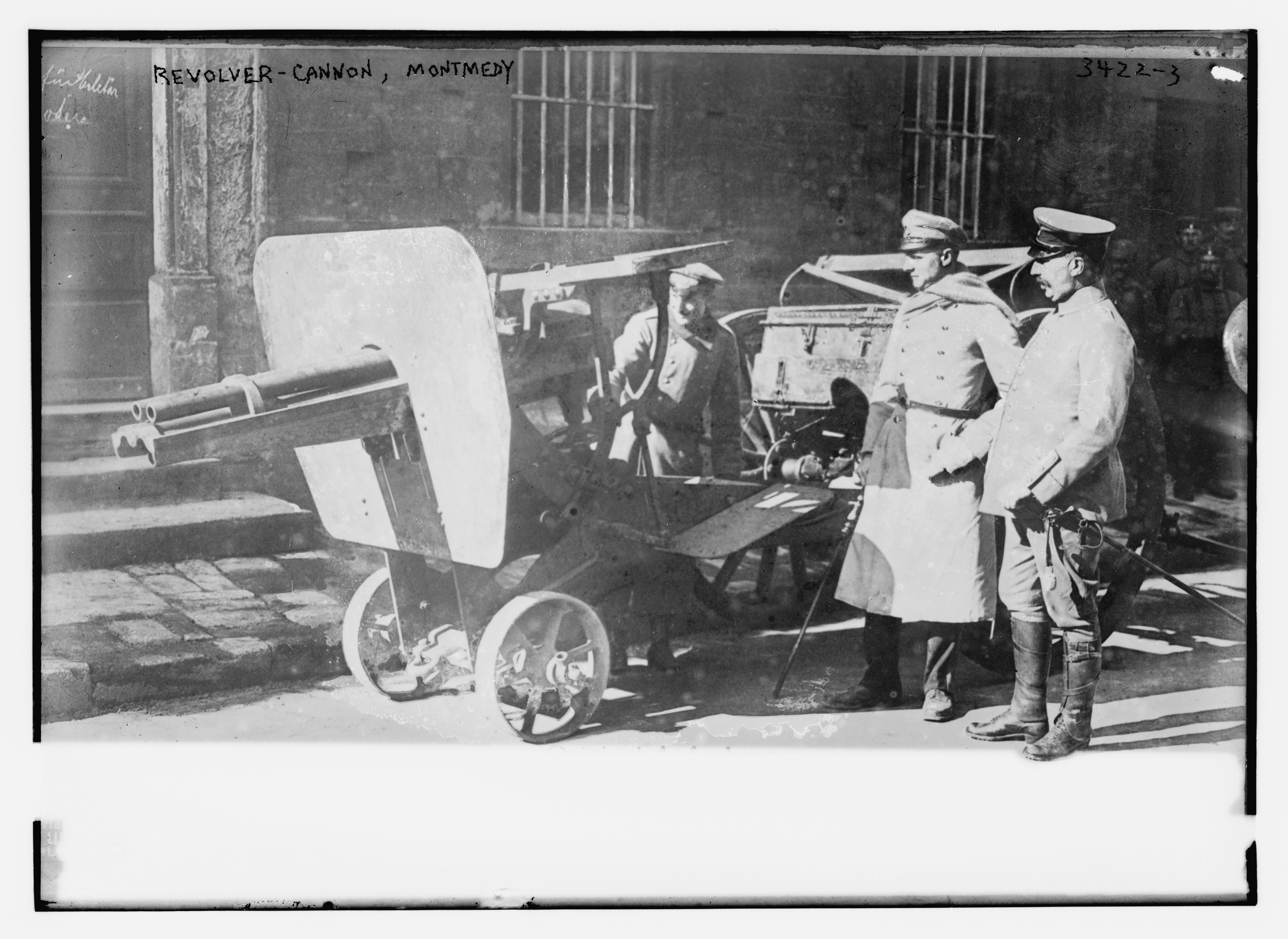 Title: French Revolver - Cannon 40 mm M 1879, Montmedy Abstract/medium: 1 negative : glass ; 5 x 7 in. or smaller.